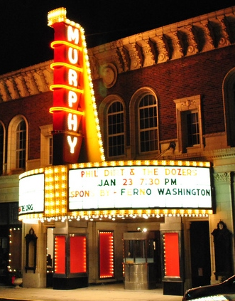 Picture of the Murphy at Night